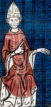 Pope Innocent III. This is a cropped image from Chroniques de France ou de St Denis (Royal 16 G VI) folio 374v.